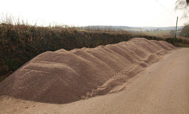 Gravel near White Down Cross Piles of a rather attractively-coloured gravel await use, presumably for road dressing, in a layby on the lane from Thornes Park to White Down Cross.